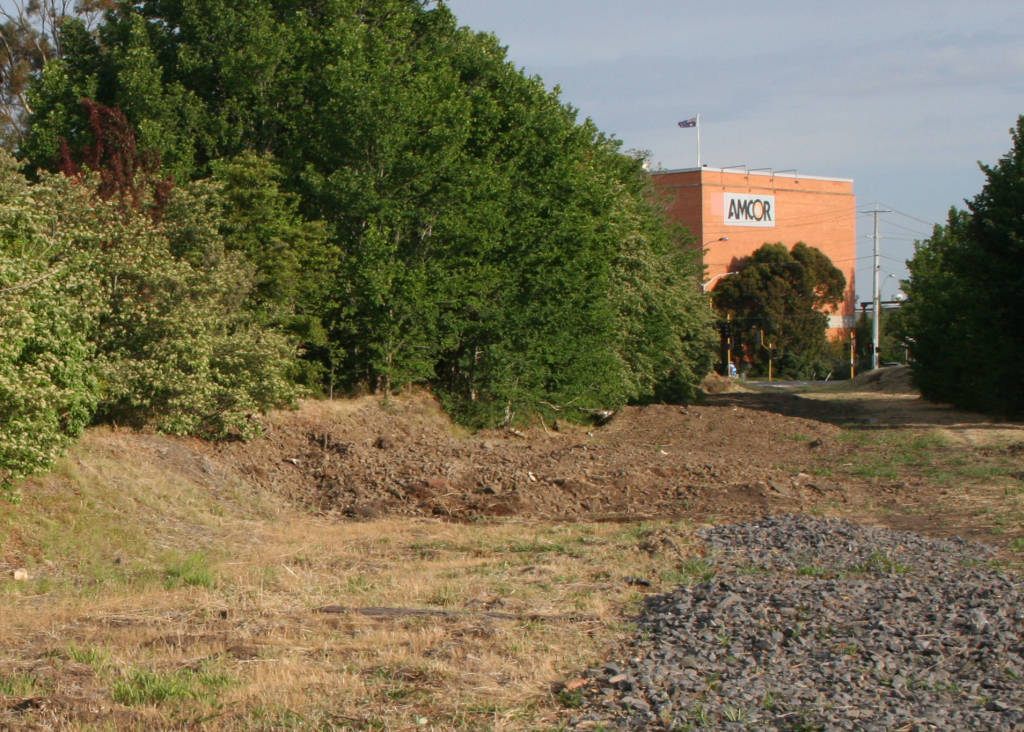 Looking down the APM Siding, Melbourne towards the paper mill